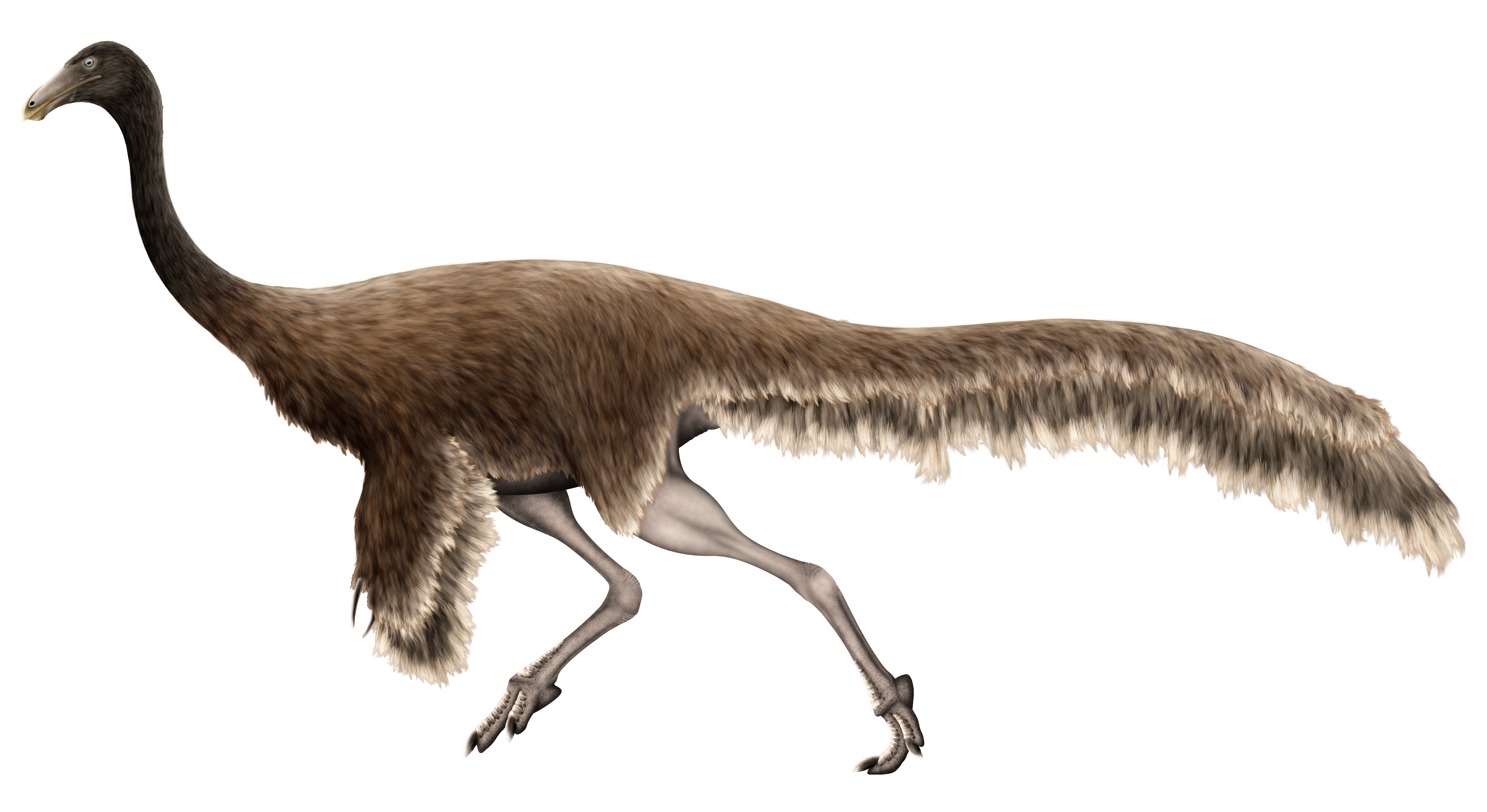 Life restoration of an individual of the (apparently) North American ornithomimids Qiupalong. The holotype was found in Asia dating to the Maastrichtian stage, however, several older findings indicate that the species originated in North American and radiated to Asia.